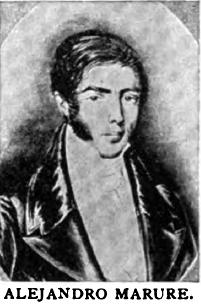 Alejandro Marure